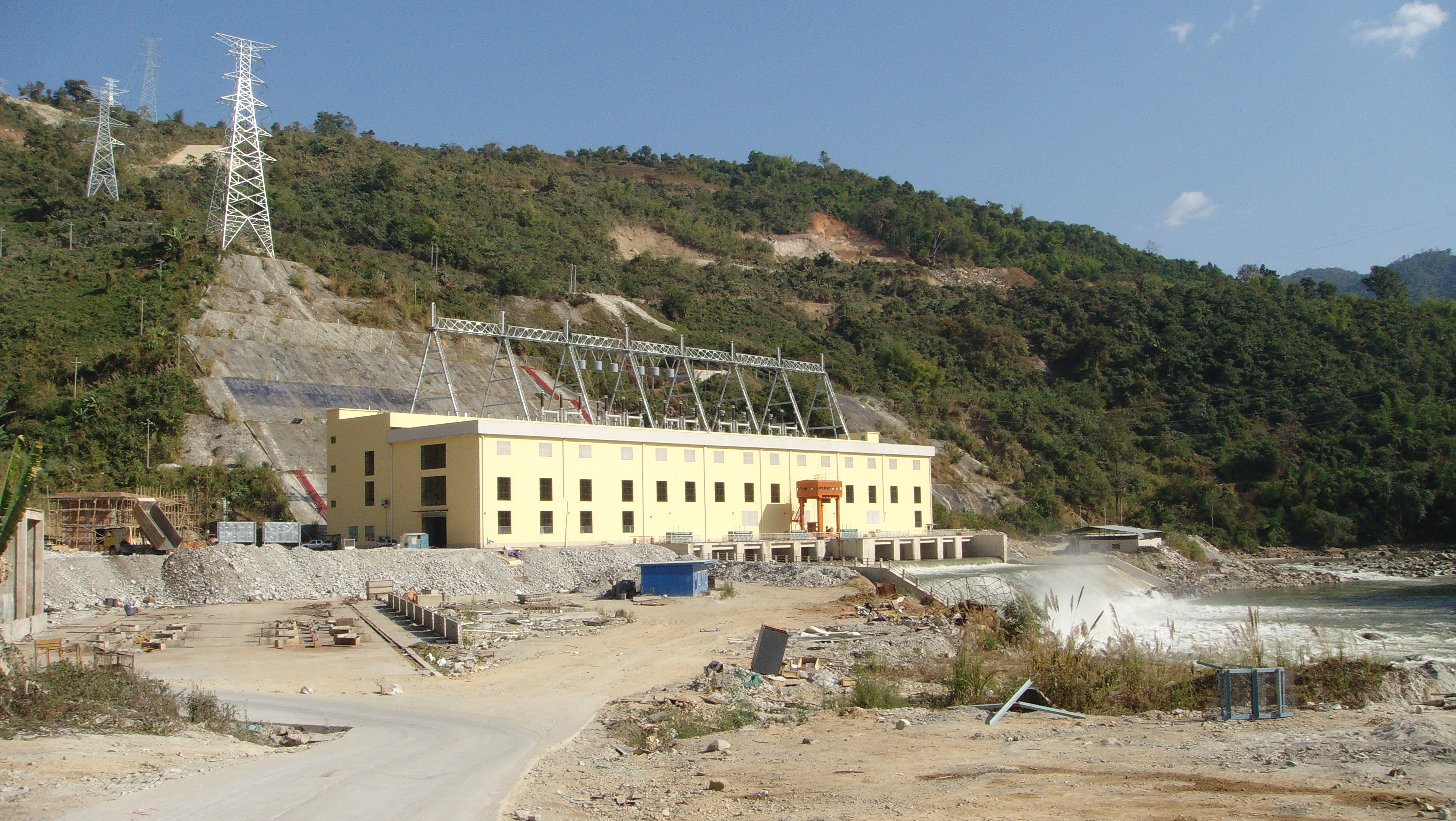 Shweli I Dam